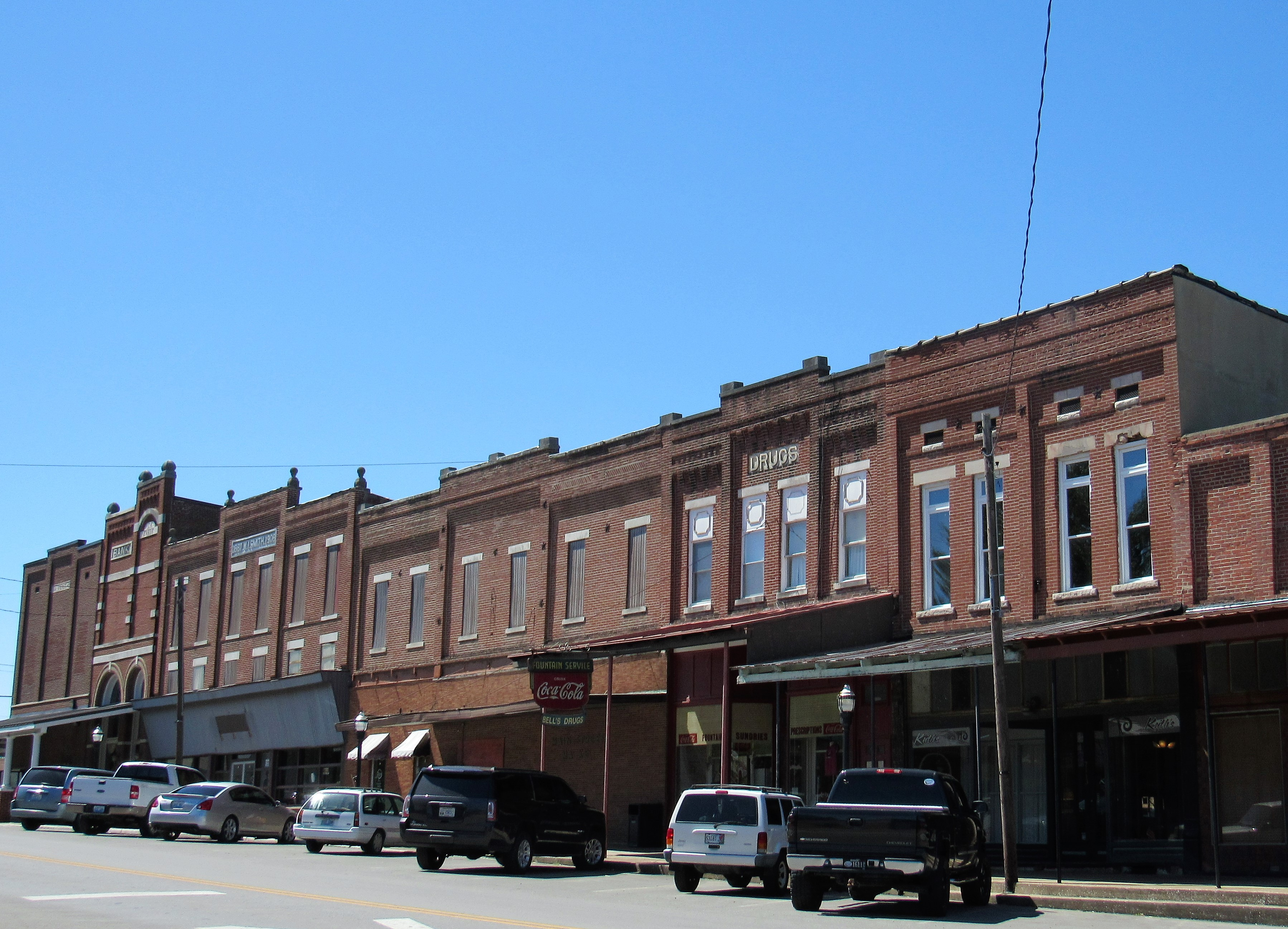 Buildings in the commercial district of Sebree, Kentucky.